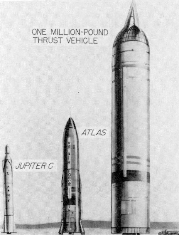 Comparison of one million-pound thrust missile with Jupiter C and Atlas ICBM